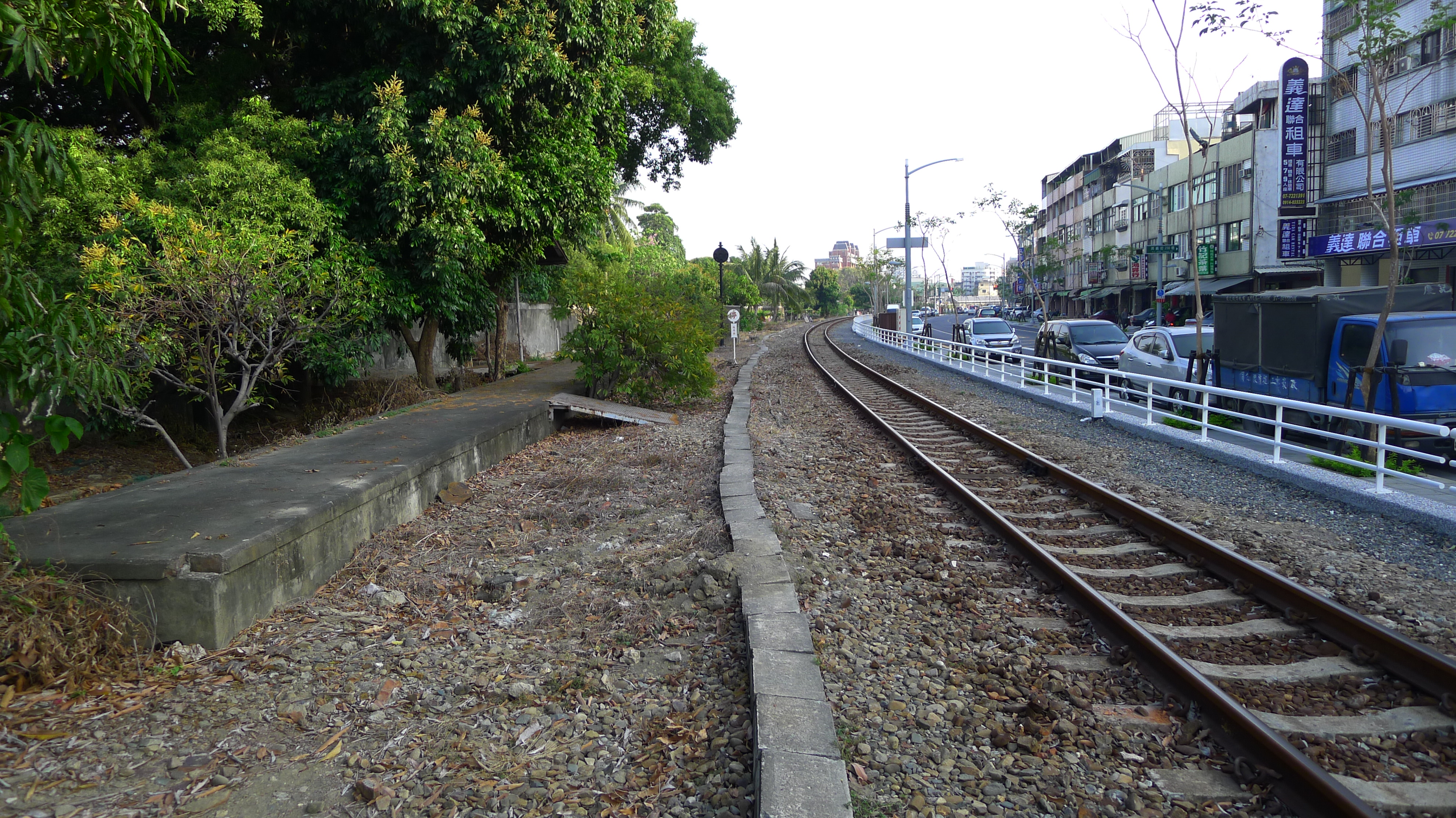 Railway Workshop Station near Kaohsiung Railway Workshop